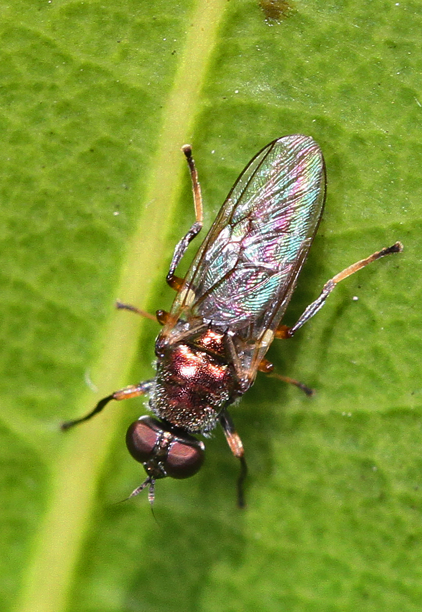 Soldier Fly - Nothomyia calopus, Everglades National Park, Homestead, Florida.